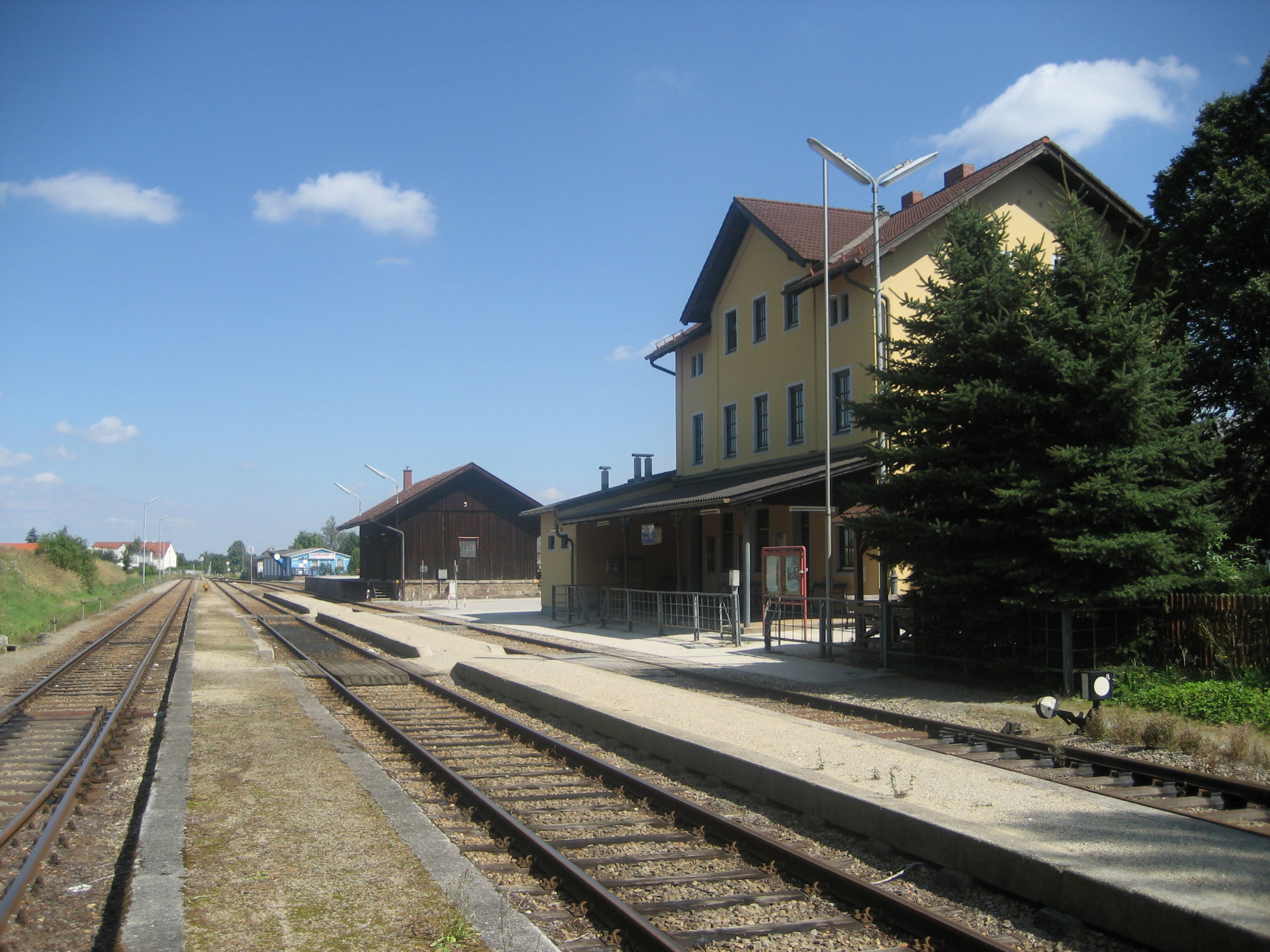 train station Waidhofen an der Thaya in Lower Austria